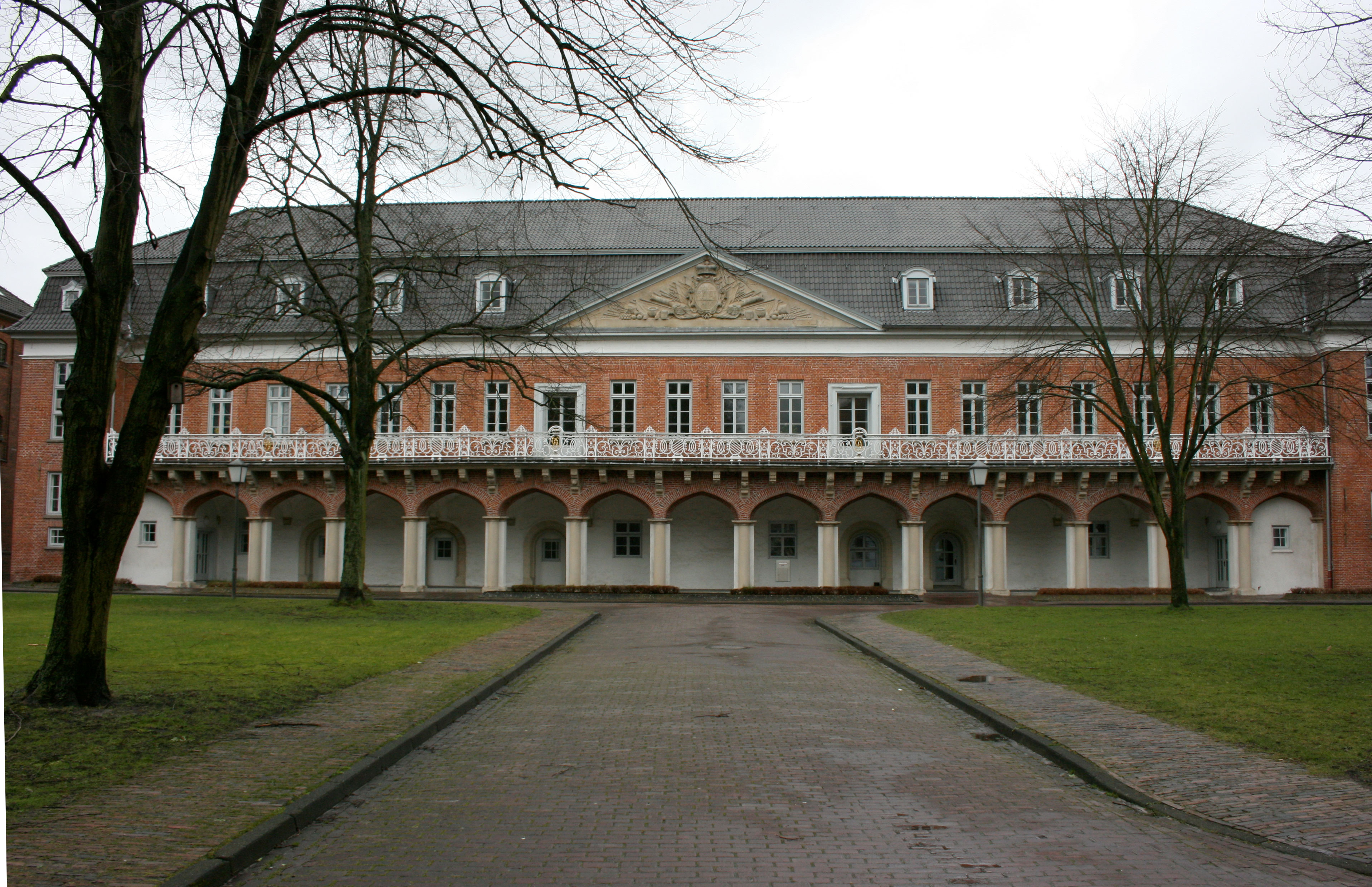 Marstall Aurich